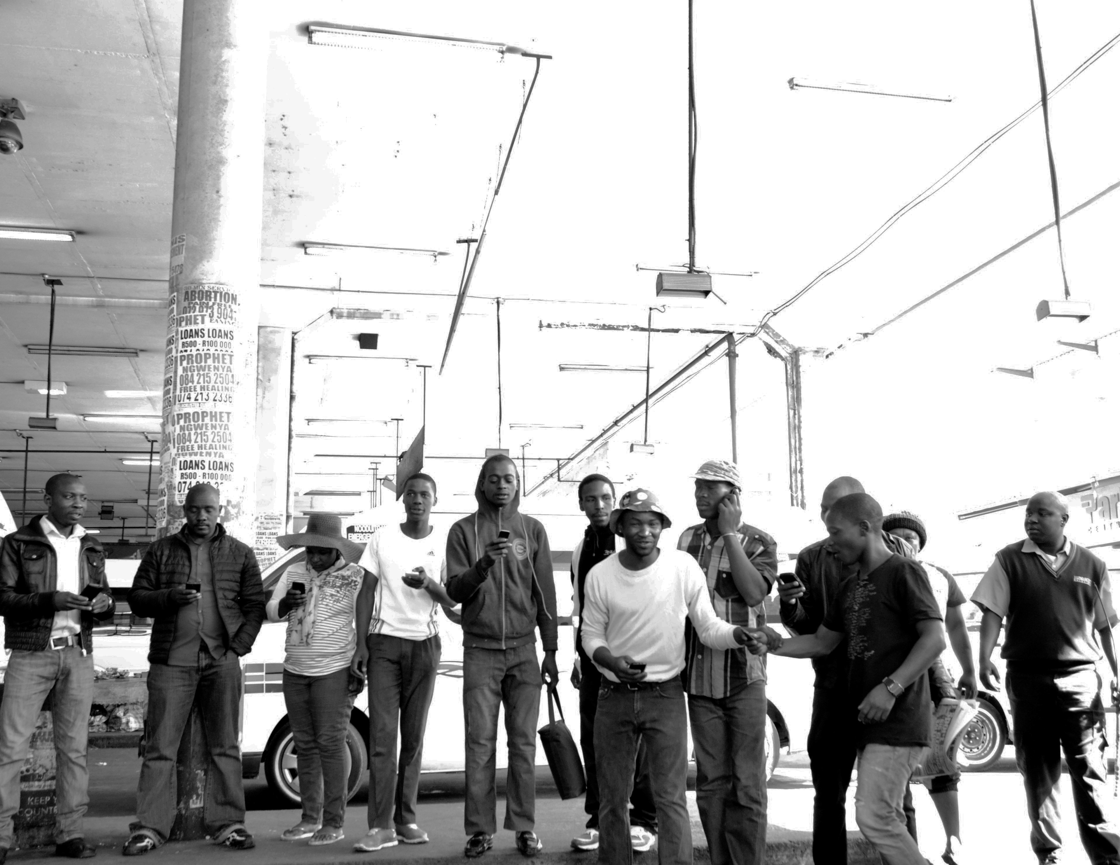 Africa is increasingly urban, here is a group of commuters in a Johannesburg Taxi Rank This is an image of "African people at work" from South Africa